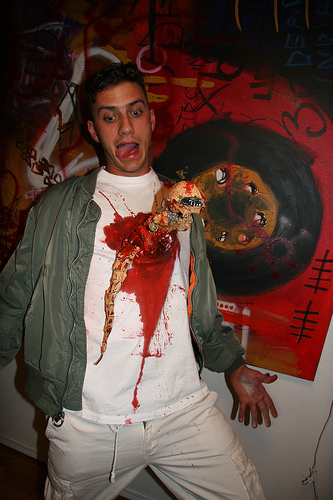 Alien chest-buster, Halloween costume